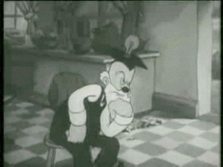 The Betty Boop cartoon this image is taken from House Cleaning Blues (1937) which is in the public domain because the copyright was not renewed by the copyright owners.